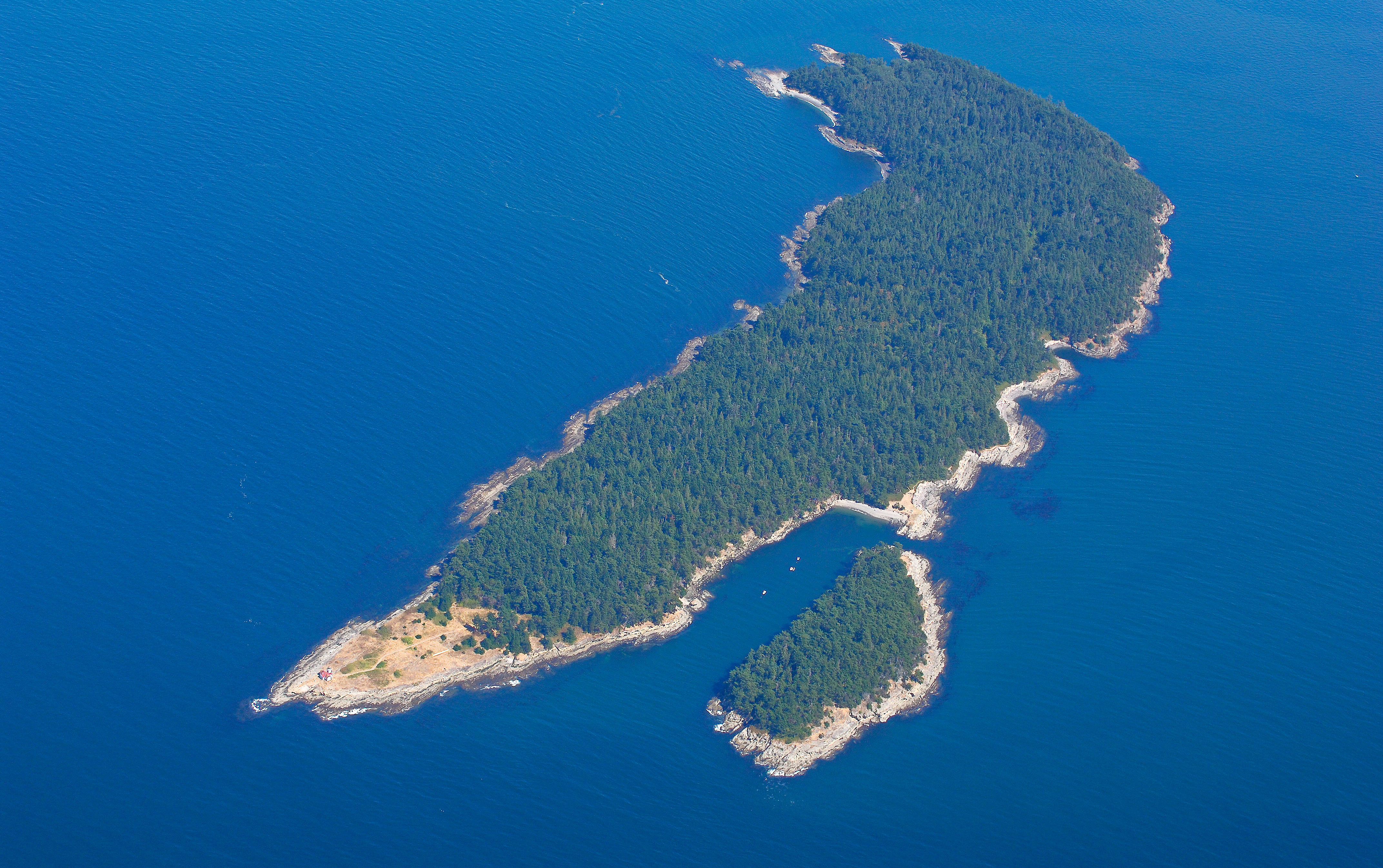 The amazing San Juan Islands of Washington State offer a plethora of incredible sights, exciting recreation opportunities, and memories for a lifetime. Situated in the northern reaches of Washington State's Puget Sound, the San Juan Islands are a uniquely beautiful archipelago of over 450 islands, rocks, and pinnacles. The new San Juan Islands National Monument encompasses approximately 1,000 acres of land spread across many of these rocks and islands and managed by the Department of the Interior's Bureau of Land Management. Drawing visitors from around the world, this is a landscape of unmatched contrasts, where forests seem to spring from gray rock and distant, snow-capped peaks provide the backdrop for sandy beaches. The San Juan Islands National Monument is a trove of scientific and historic treasures, a refuge for an array of wildlife, and a classroom for generations of Americans. On March 25, 2013, President Obama signed a proclamation to designate the San Juan Islands National Monument. The proclamation states that, "The protection of these lands in the San Juan Islands will maintain their historical and cultural significance and enhance their unique and varied natural and scientific resources, for the benefit of all Americans." To learn more about your public lands on the San Juans and to plan a warm weather visit to this uniquely beautiful locale, visit: Contact: San Juan Islands National Monument 37 Washburn Place Lopez Island, WA 98261 360-468-3754